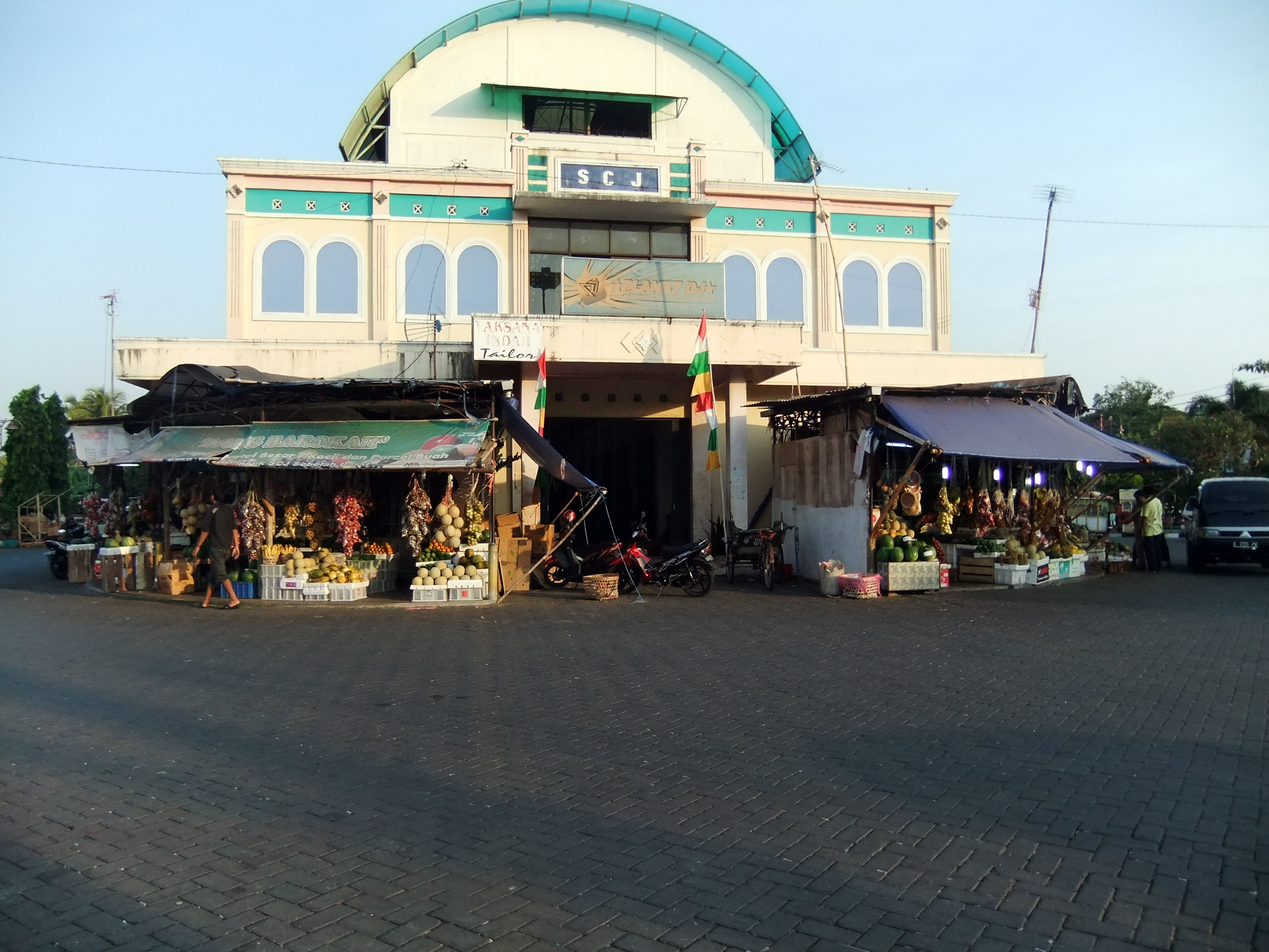 Jepara Shopping Center, Jepara, Indonesia